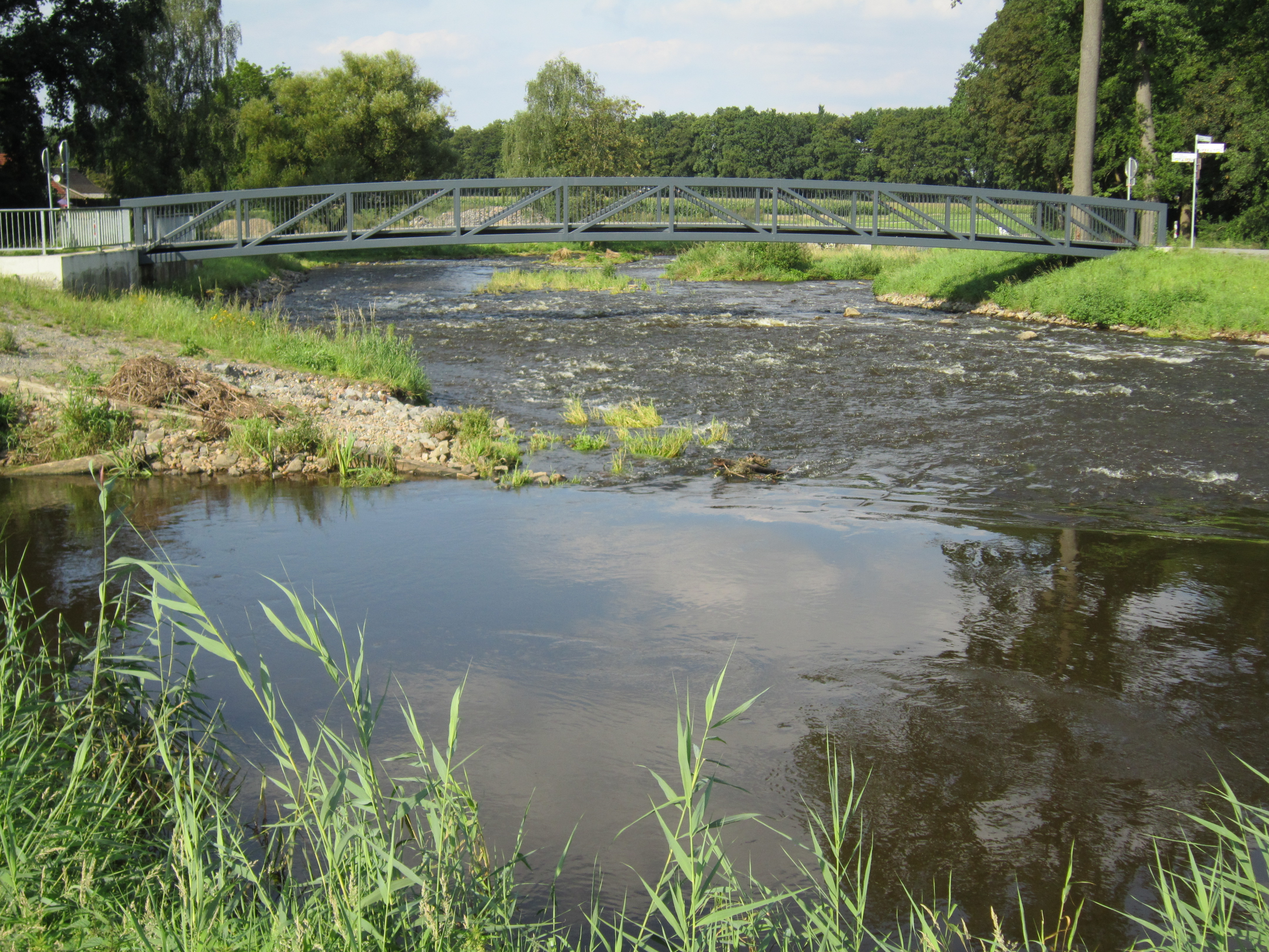 Beginning of the delta of Hase River in Quakenbrück: "Kleine Hase" flowing to the left, "Große Hase" (Überfallhase) flowing into the background